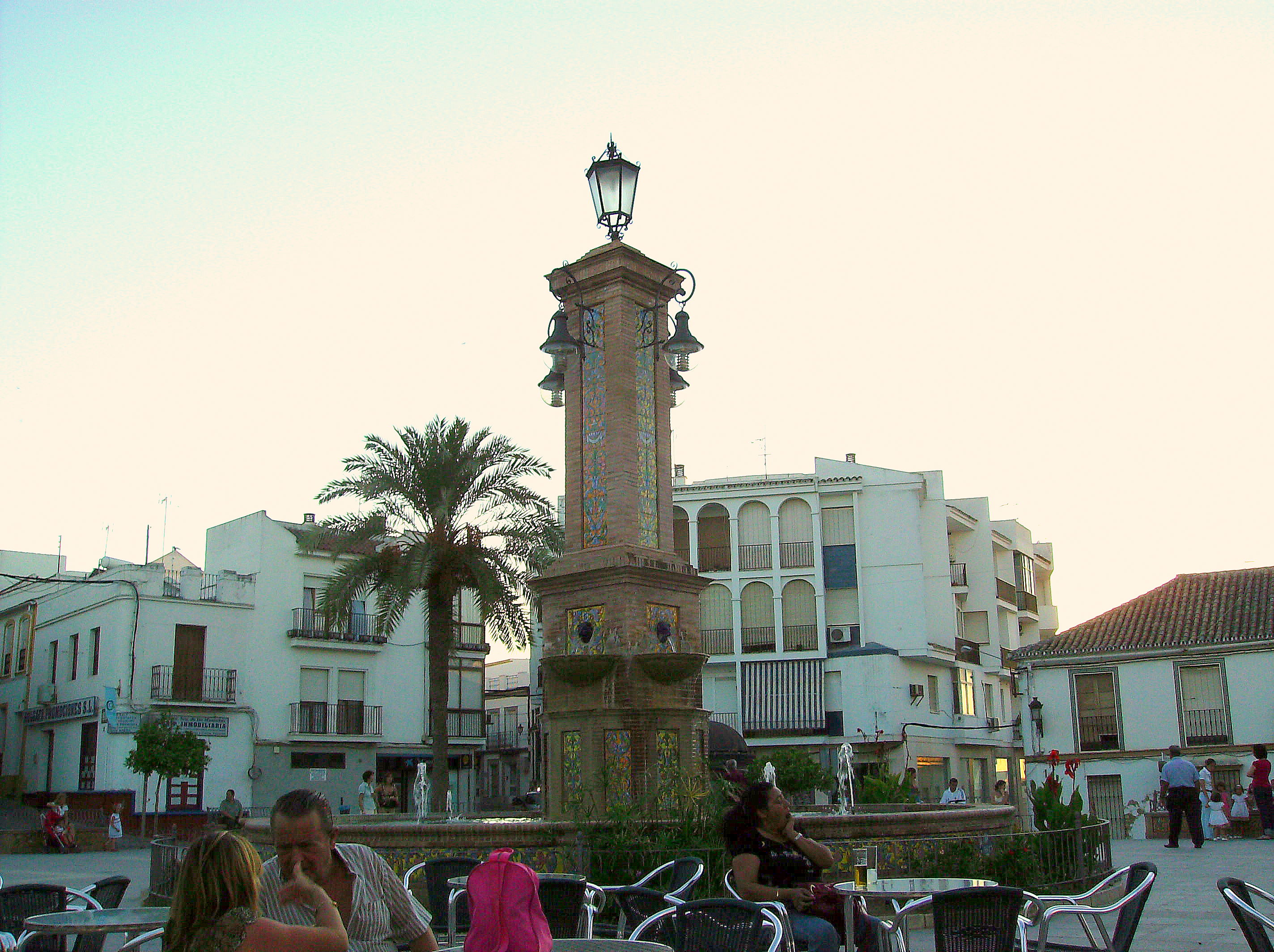 Fountain at La Plaza in Villamartín, Spain.